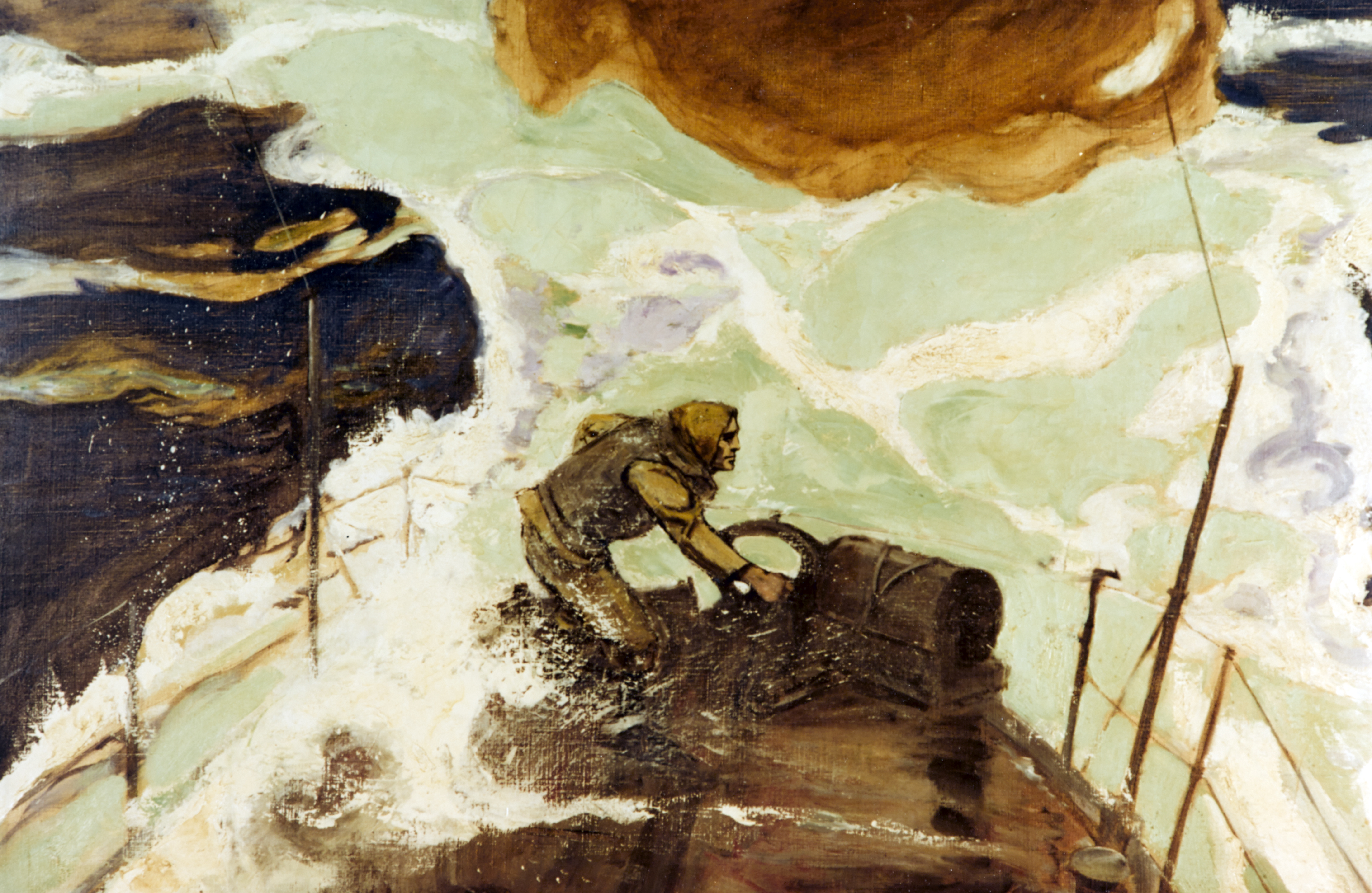 USS Cassin (DD-43) Painting by Charles B. Falls, depicting the gallant but futile effort of Gunner's Mate First Class Osmond K. Ingram, USN, to release the ship's depth charges just before she was hit by a torpedo from the German submarine U-61 on 15 October 1917. Ingram was posthumously awarded the Medal of Honor for his heroism on this occasion. Courtesy of the U.S. Navy Art Collection, Washington, DC. U.S. Naval Historical Center Photograph.